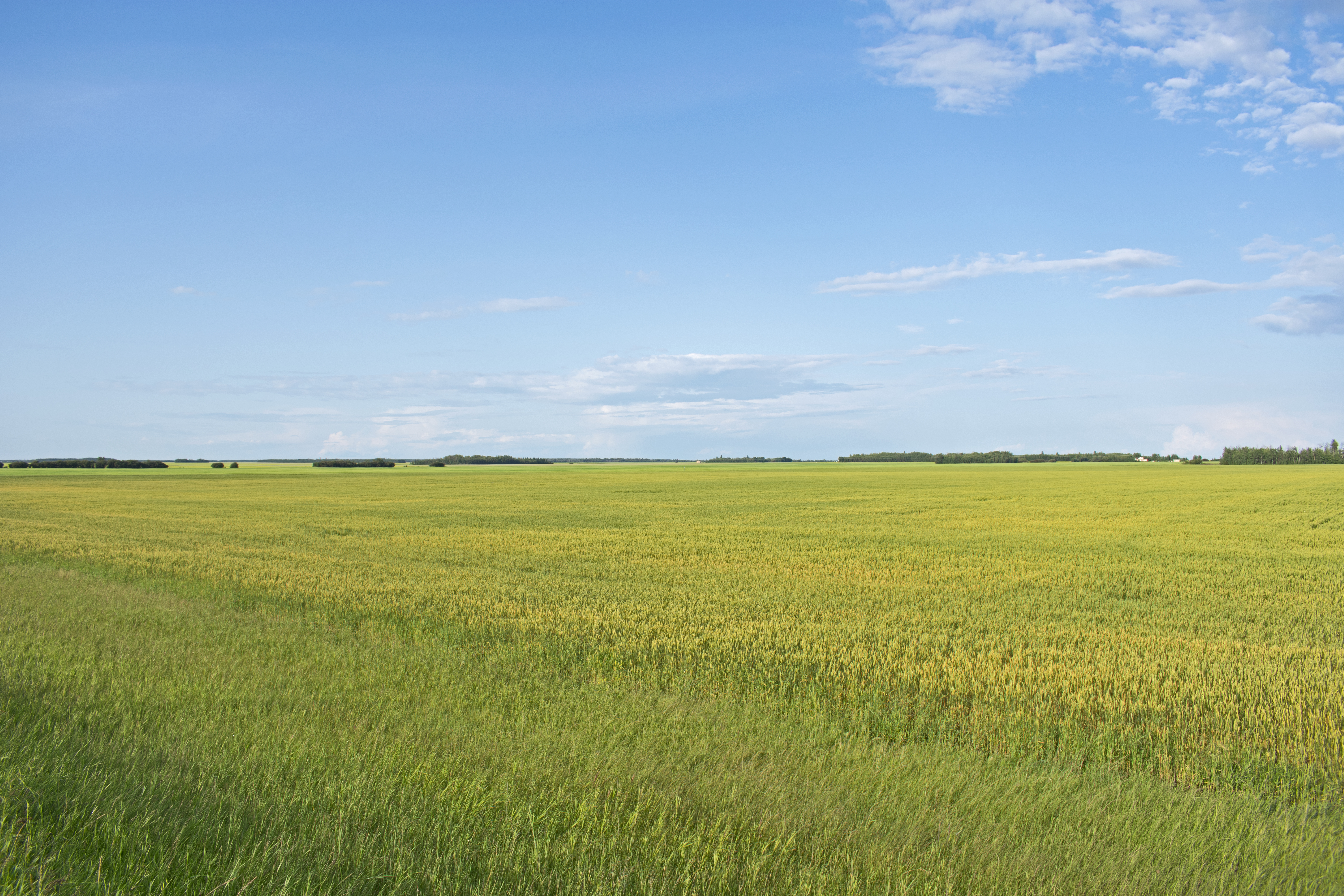 Corn field on AB2 near Falher, next to property 78230